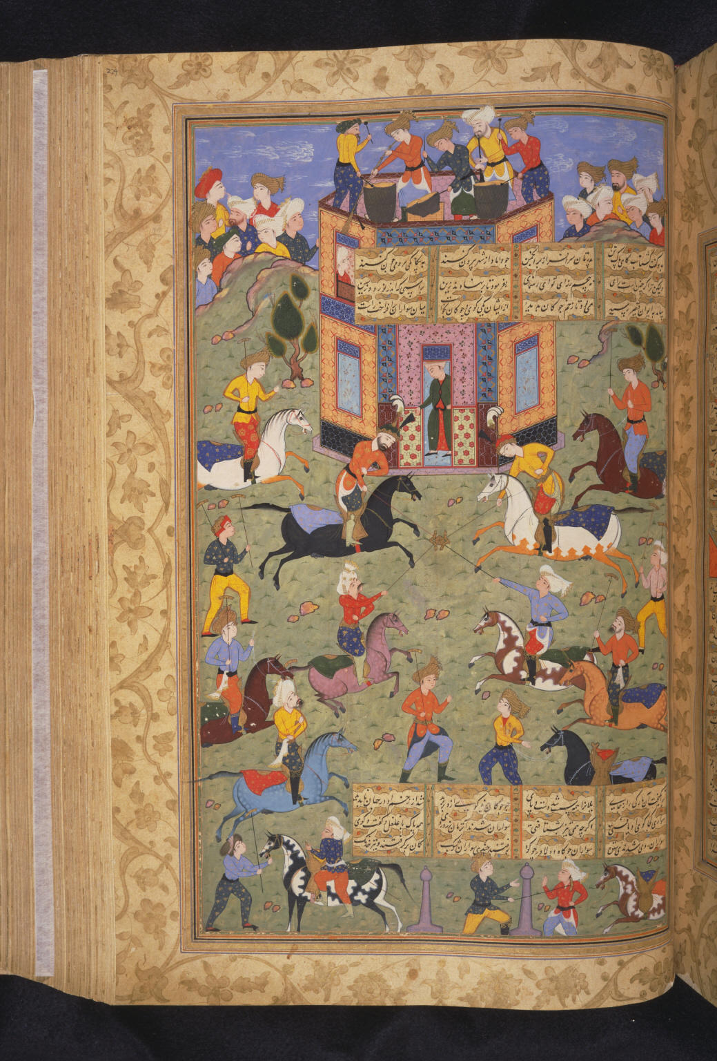 Goshtasp plays Chowgan in Caesar's court